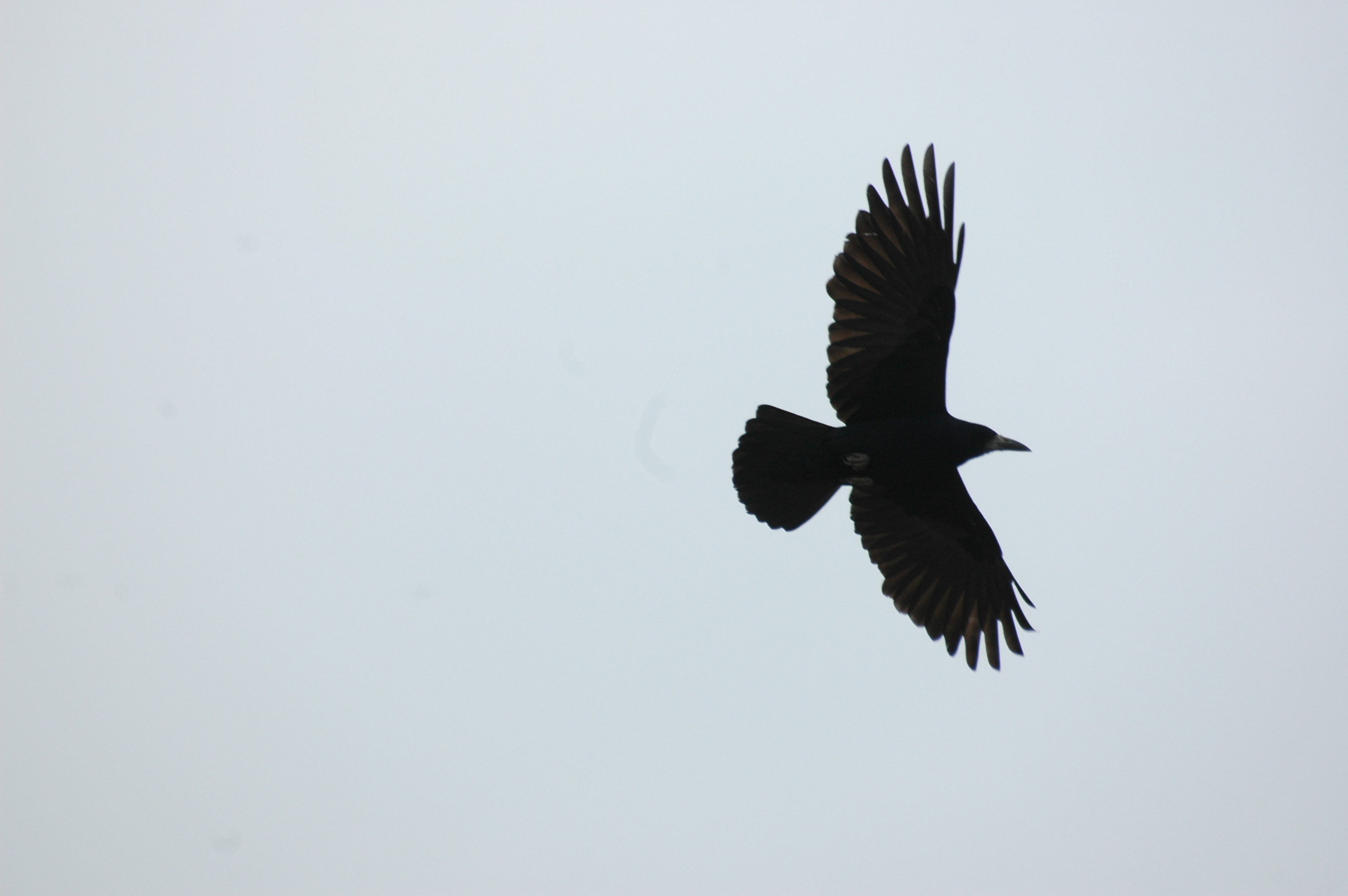 Rook (Corvus frugilegus), 55294 Bodenheim, Germany